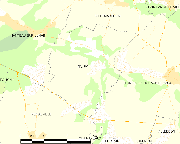 Map of French municipality Paley